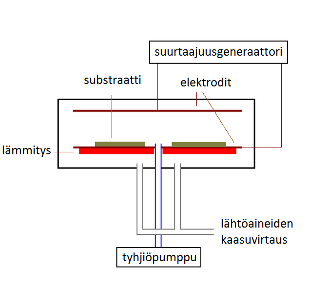 The principle behind the PECVD-method.